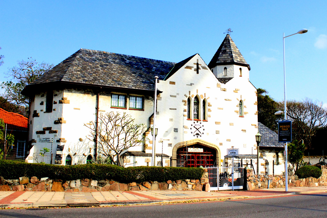 Fort and cemetary in heart of Durban. Vast collection of war memorabilia housed within museum. This media shows a South African Protected Site with SAHRA file reference 9/2/407/0028.